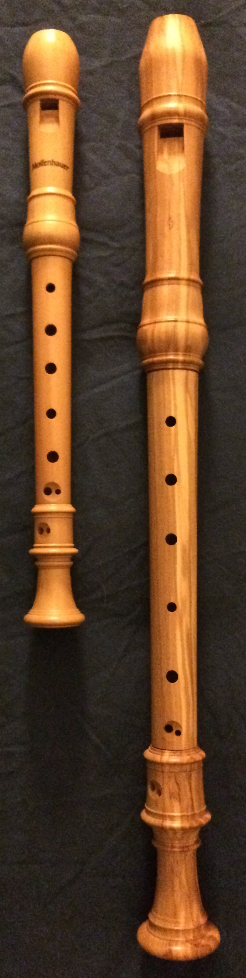 A three-piece alto recorder with baroque fingering in olive wood, next to a soprano recorder for comparison.